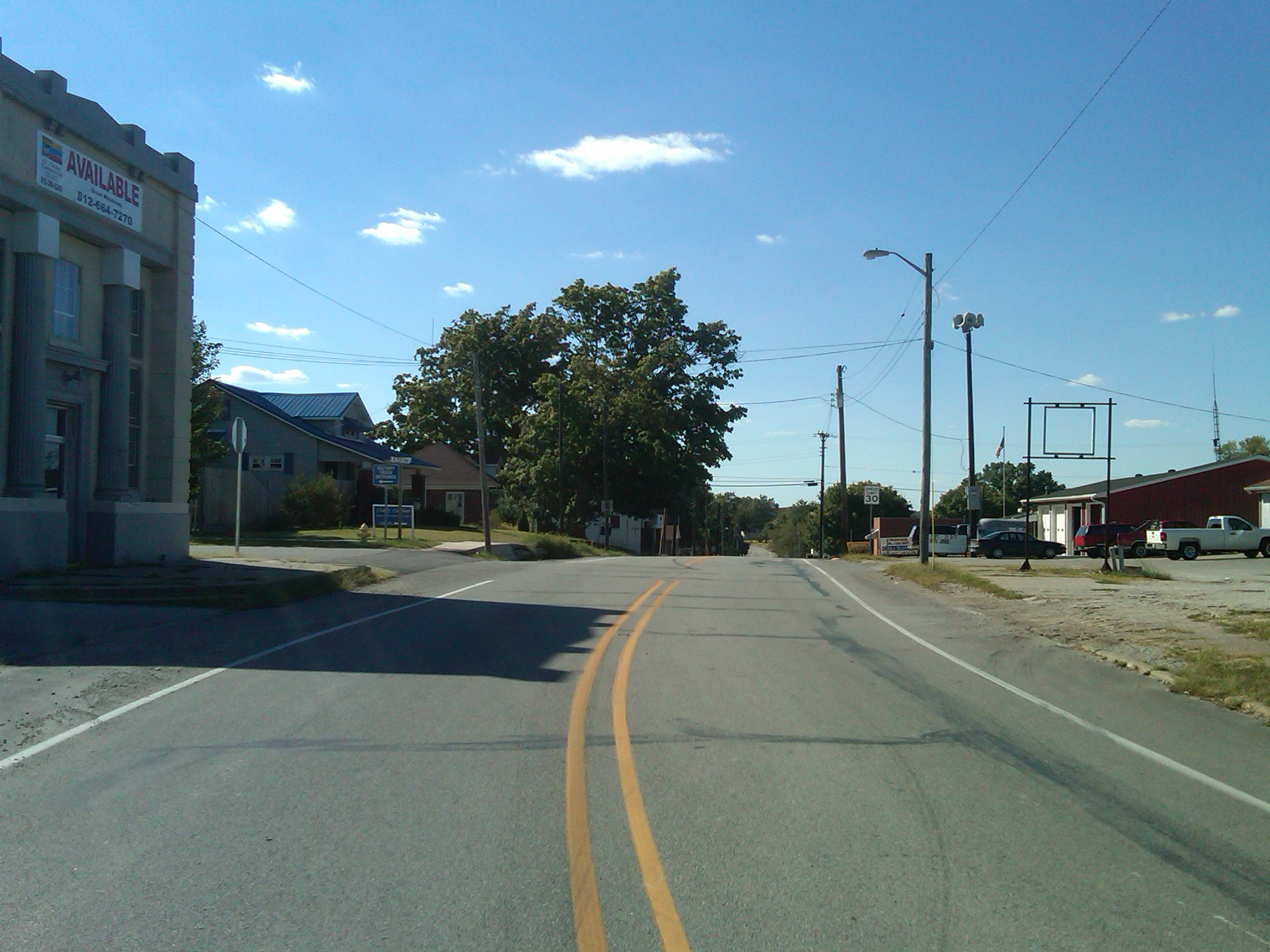 Uptown Francisco Indiana in Sept. 2010